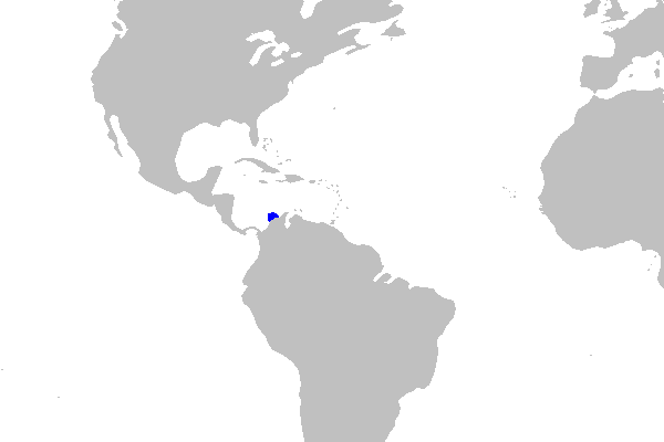 Distribution map for Etmopterus carteri